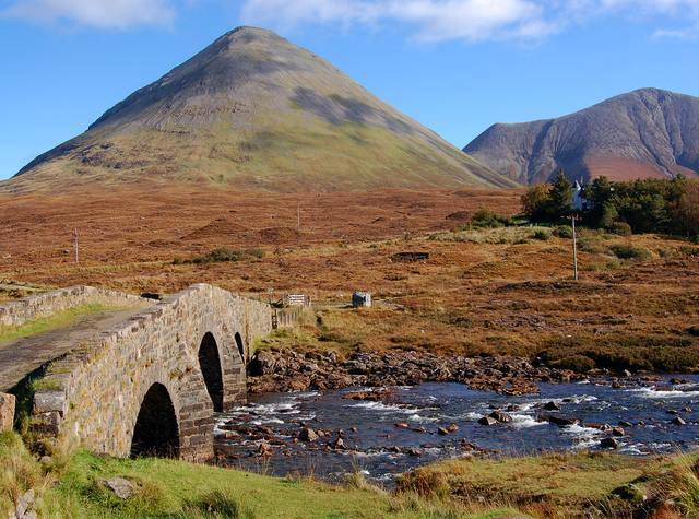 The old road bridge at Sligachan